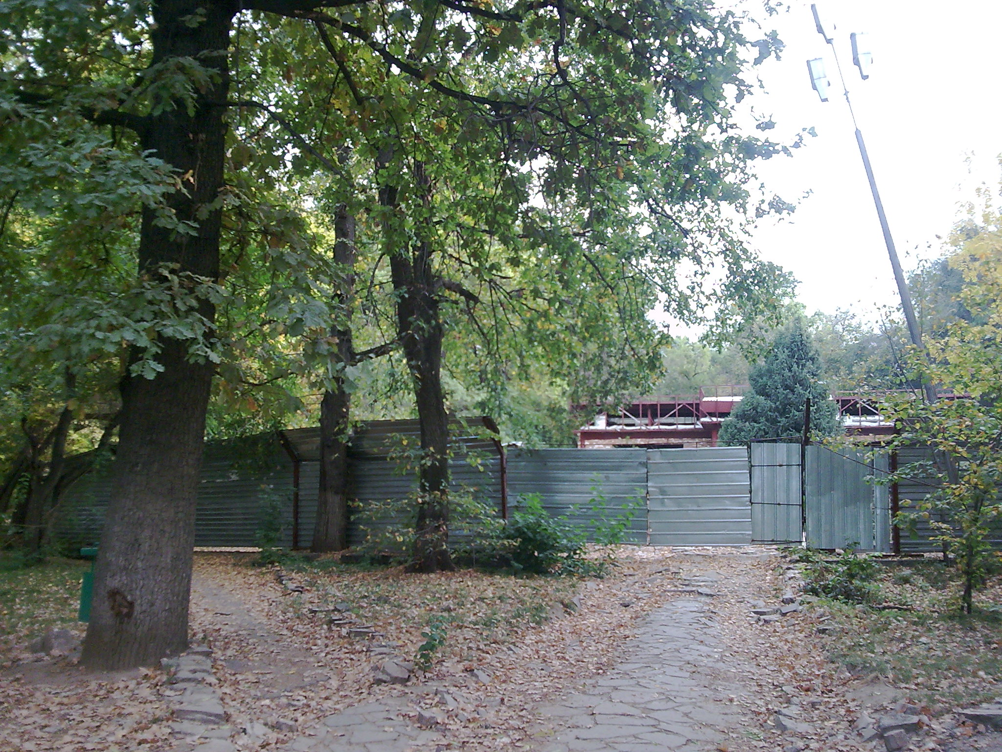 Illegal construction in the Park of 28 Panfilov guardsmen, Almaty city, 4 october 2013 year